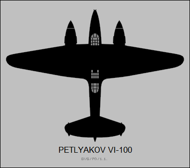 Plan-view silhouette of the Petlyakov VI-100